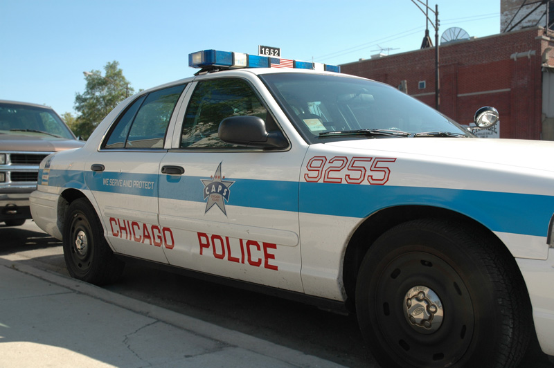 Chicago police squad car. I, Brett Gustafson, made this original work myself and release it into the public domain.